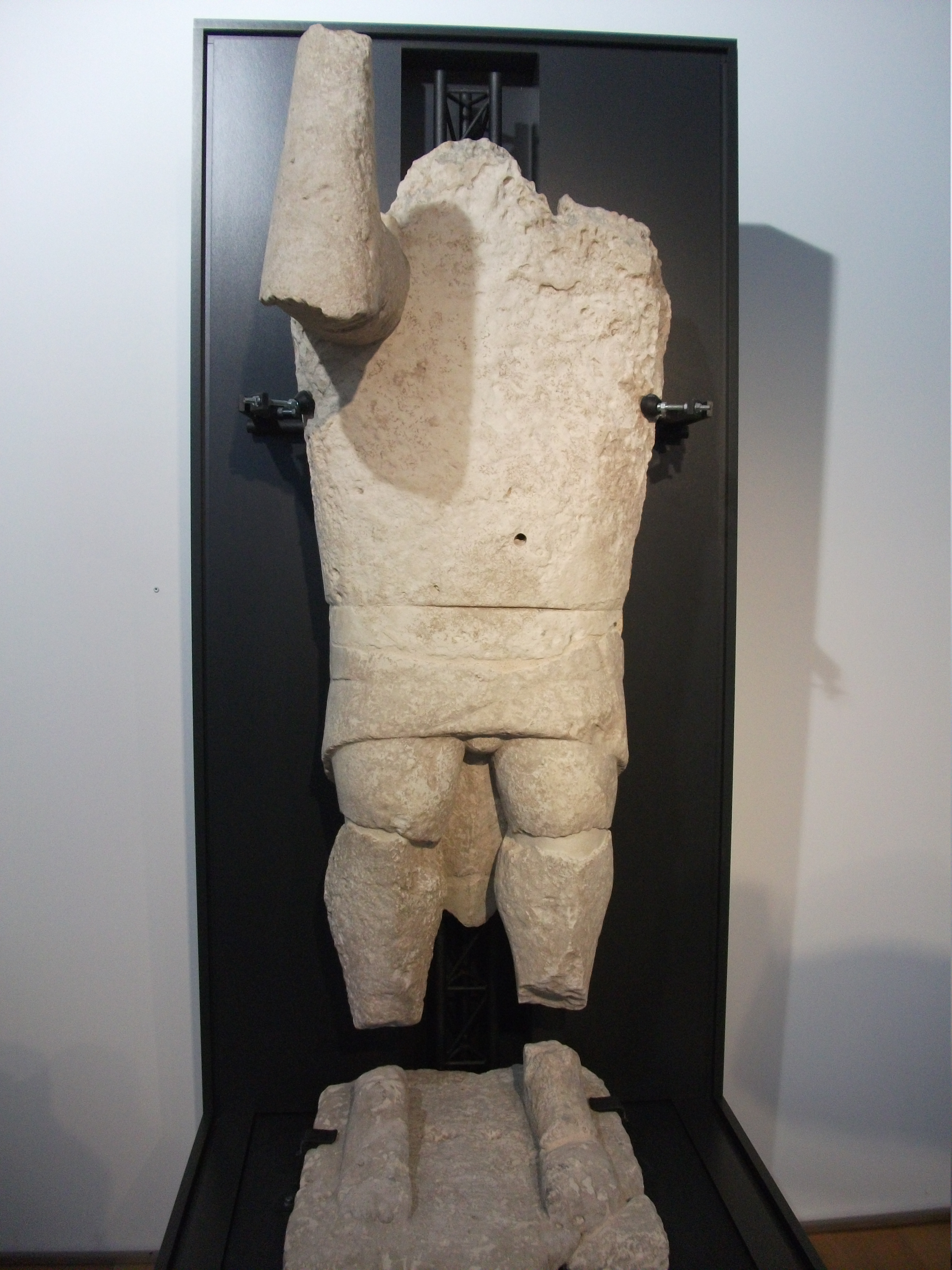 Sculpture, Giant of Monte Prama, boxer, Sardinia, Italy, Nuragic civilization,archaeology, bronze age, sea peoples,prehistory